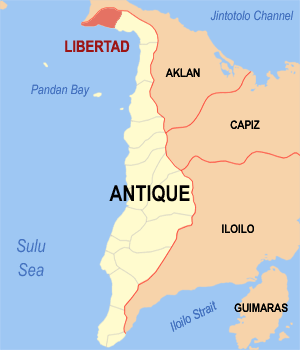 Map of Antique showing the location of Libertad